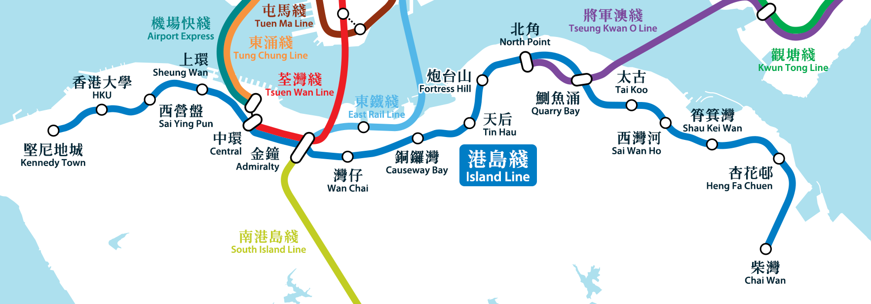 MTR Island Line Geograpical Map